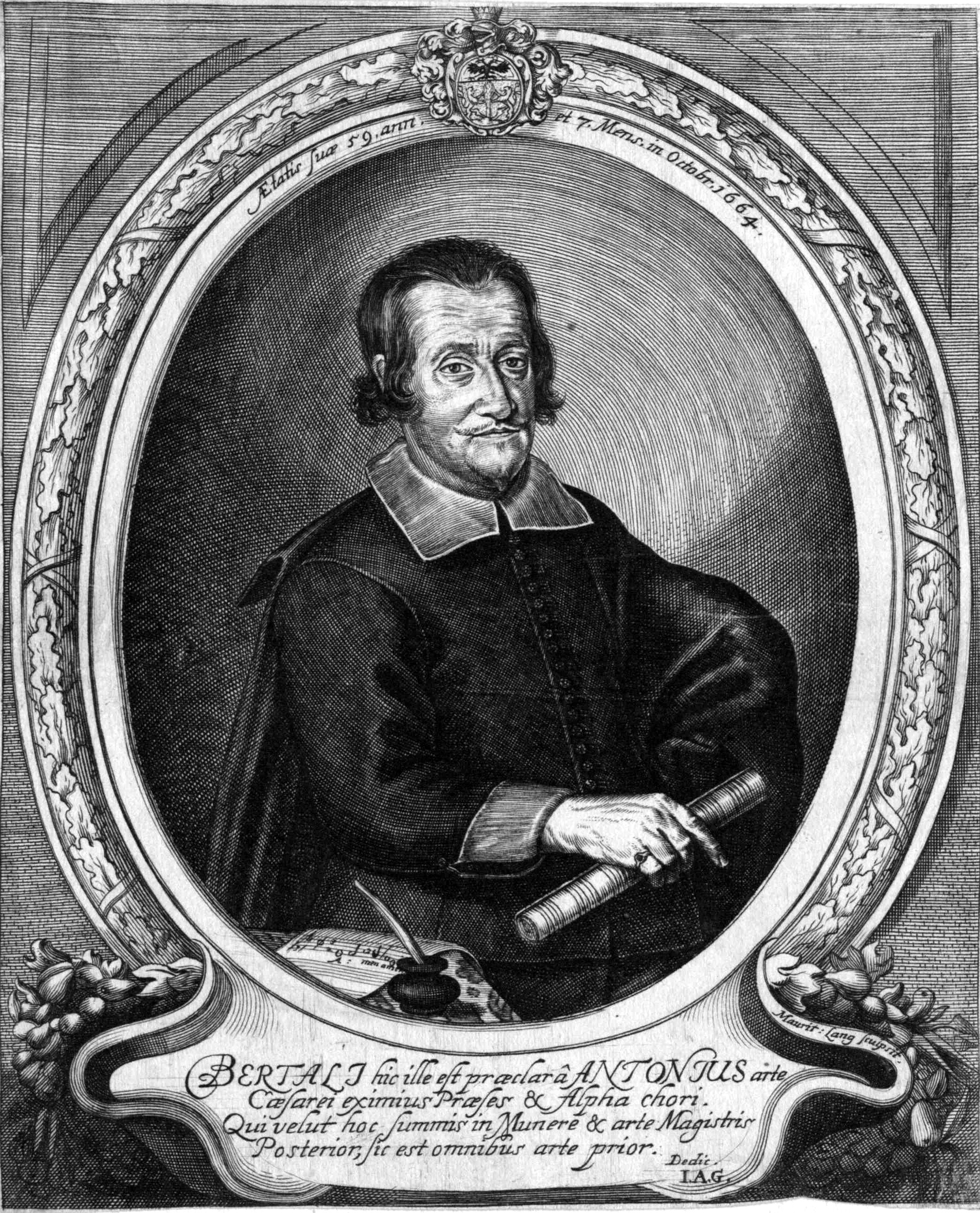 Depicted person: Antonio Bertali